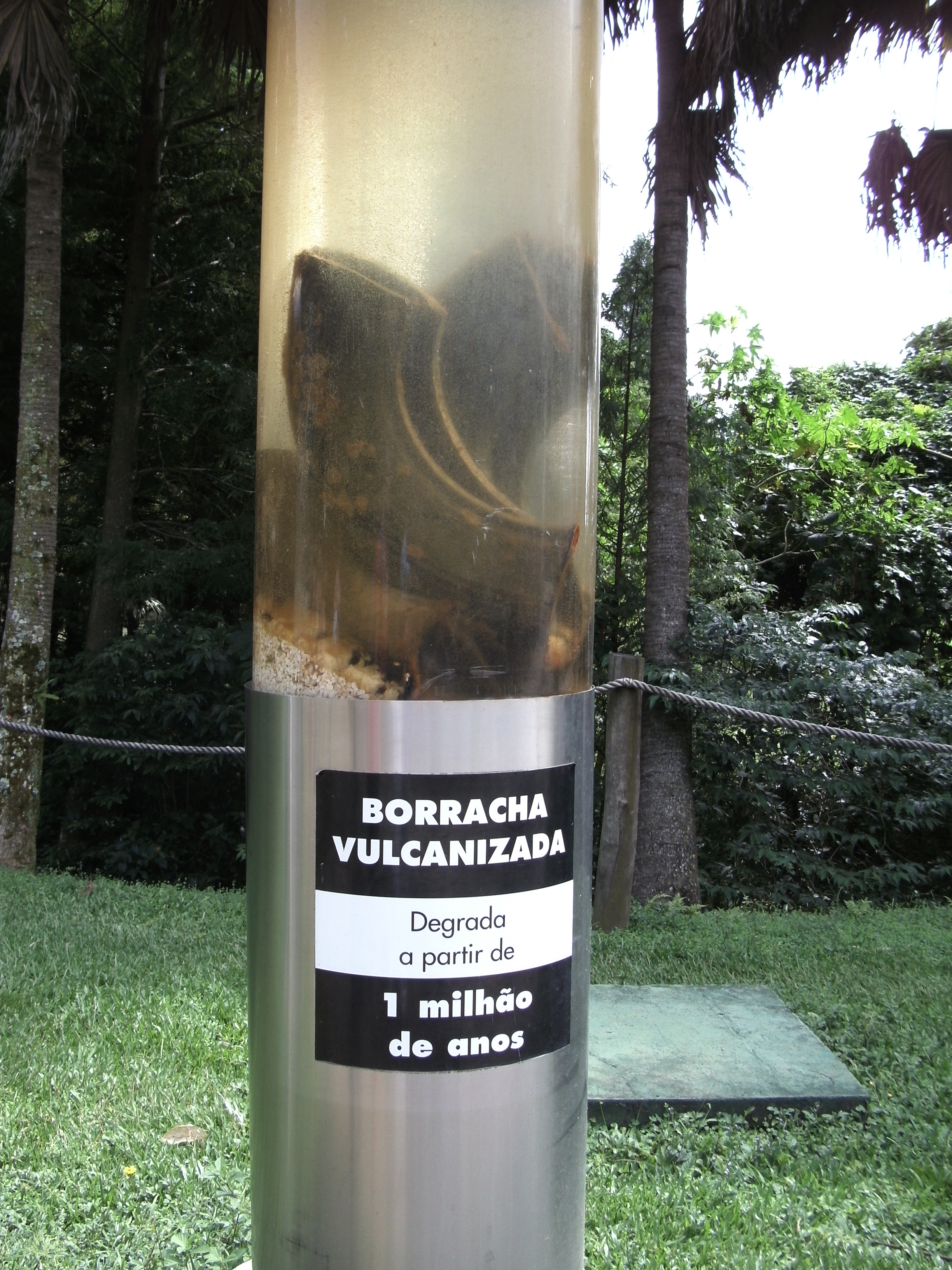 vulcanized rubber